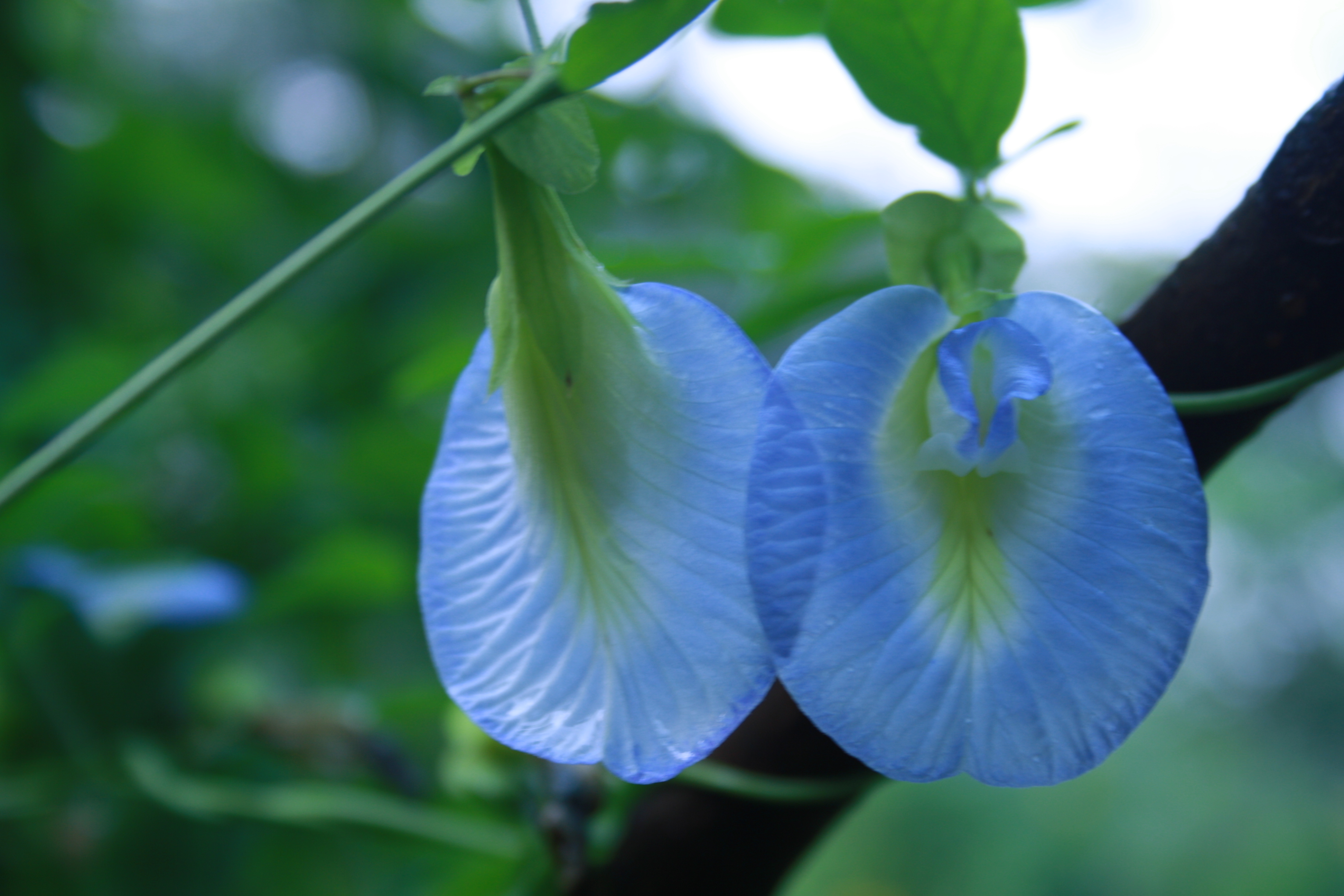 Clitoria Ternatea: Front and back sides. Photograph taken near by Nagothane, Maharashtra, India